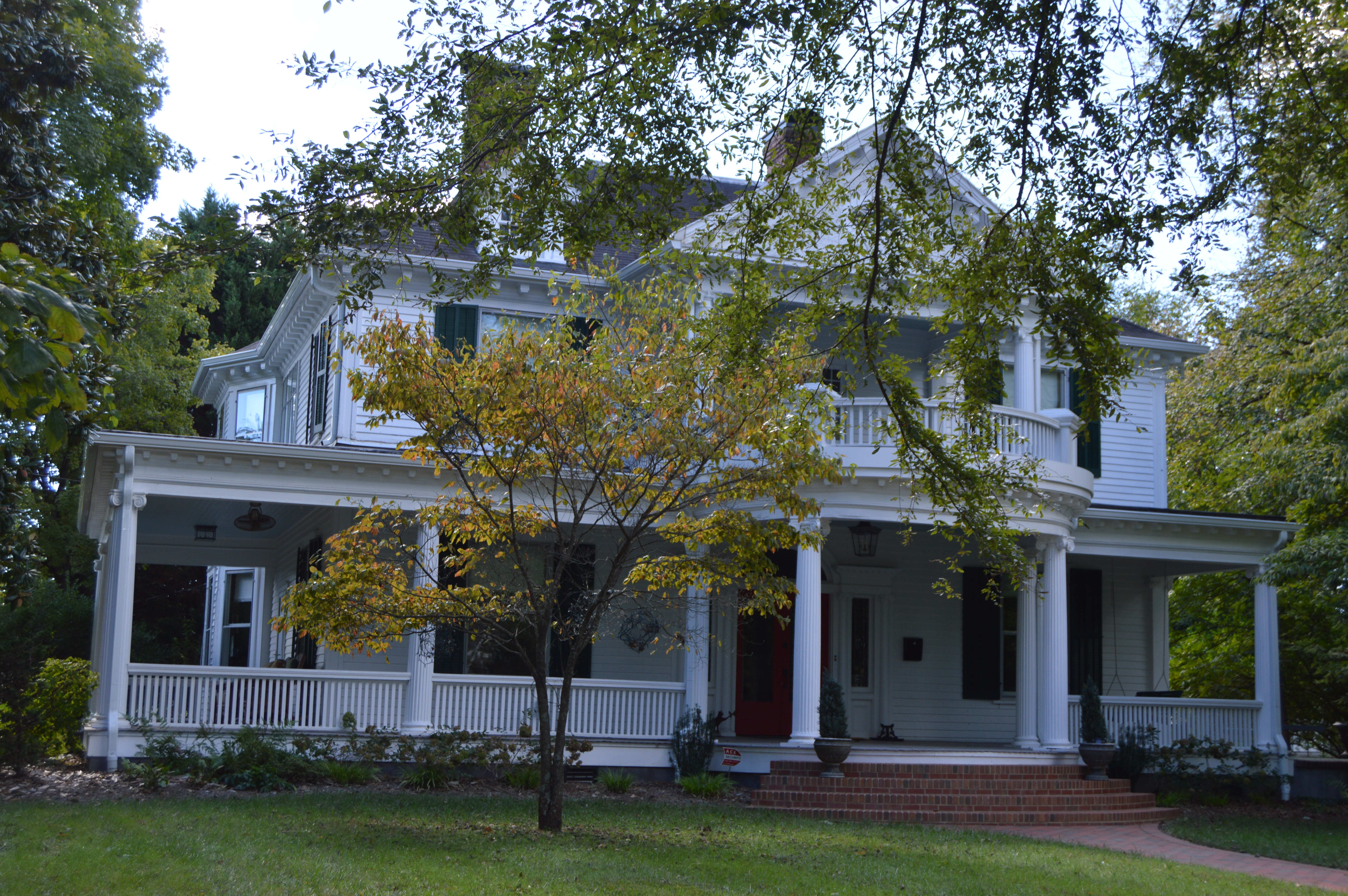 Front of the Cicero Francis Lowe House, located at 204 Cascade Avenue in Winston-Salem, North Carolina, United States. Built in 1911, it is listed on the National Register of Historic Places.